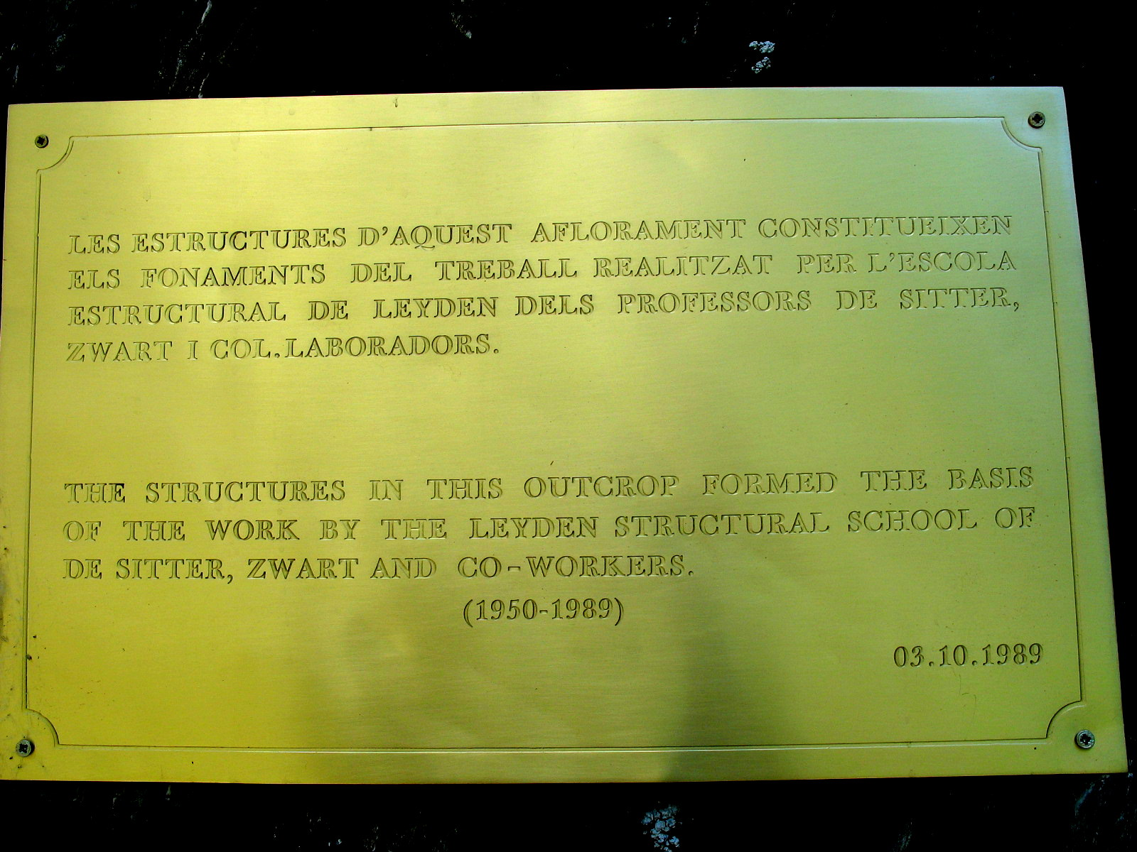 Outcrop of rocks deformed during the Variscan orogeny, known as "The stones of the Dutch". The microstructural study revealed four deformation phases. Here was the basis of the work of the structural school of Leyden (Netherlands), by De Sitter, Zwart et al. between 1950 and 1984. Vall de Cardós, Lleida, Spain. Plaque placed by the University of Leyden in 1989. File of the Generalitat de Catalunya (in Catalan)